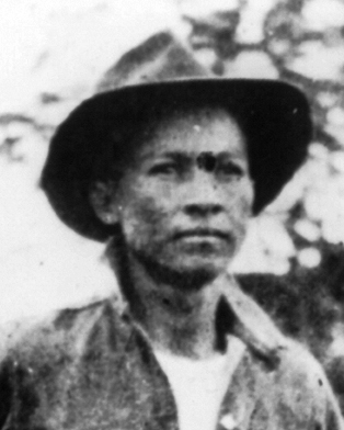 Augusto César Sandino, Nicaraguan revolutionary